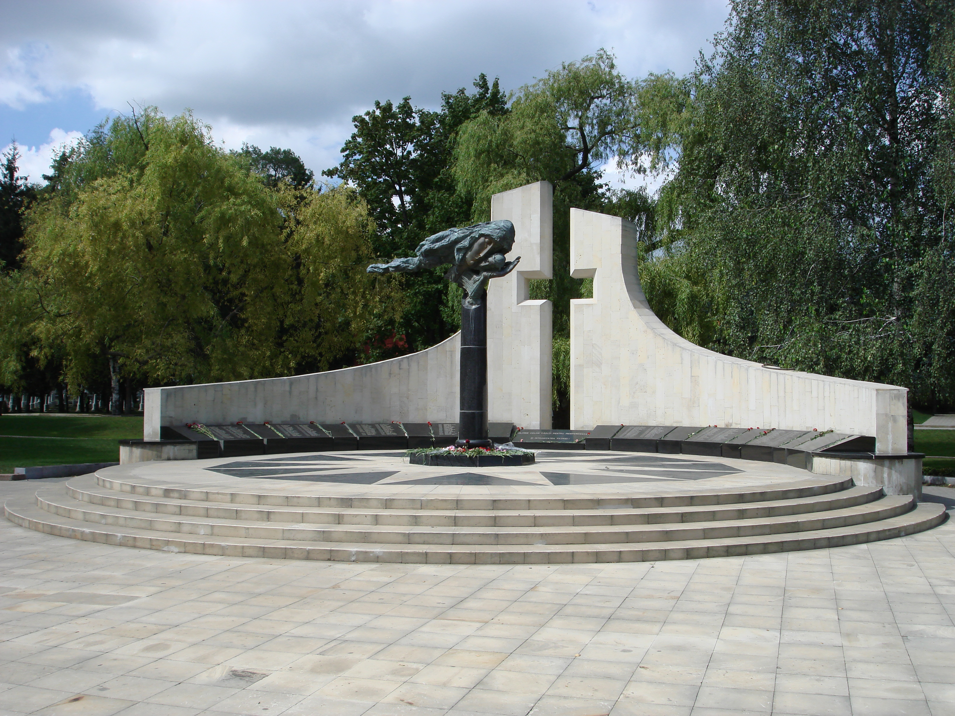 Memorial complex «Eternitate»